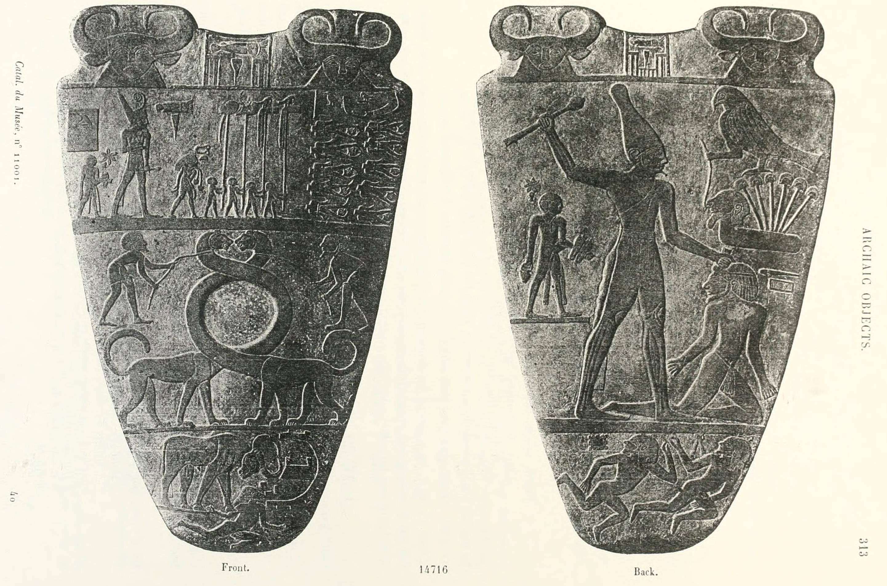 Palette 14716. Green slate. Lenght 0 m. 63 cent., thickness 0 m. 0 15 mill. to 0 m. 04 cent. Hierakonpolis, 1897-1898 (pl. LXVII) With rounded edges, the thickness varying from m. 015 mill. at some parts of the edge to ca. 0 m. o4 cent. in the middle. Face is therefore slightly convex but wavy and irregular on the front : the back is flatter. Surface smooth but not polished, everywhere showing scratches and tool marks. Decoration in low relief. On the front four registers separated by raised lines. First register. Hathot head. ...